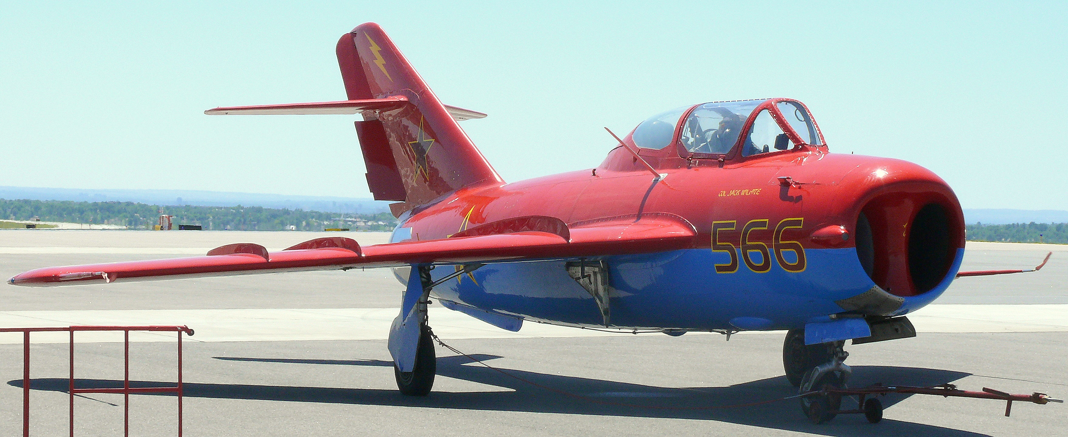 Shenyang JJ5 (MiG-17) photographed at an open house at Jefferson County Airport, June 2008